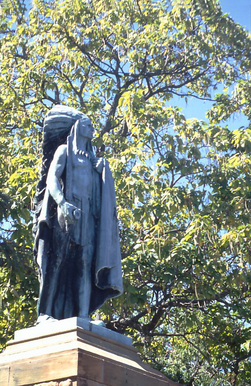 photo by Einar Einarsson Kvaran aka Carptrash 16:52, 24 January 2007 (UTC) . Chief Keokuk Monument in Keokuk, Iowa by Nellie Walker